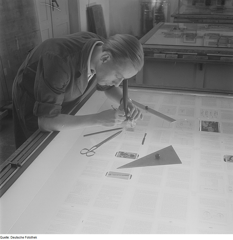 Original image description from the Deutsche Fotothek Typoart